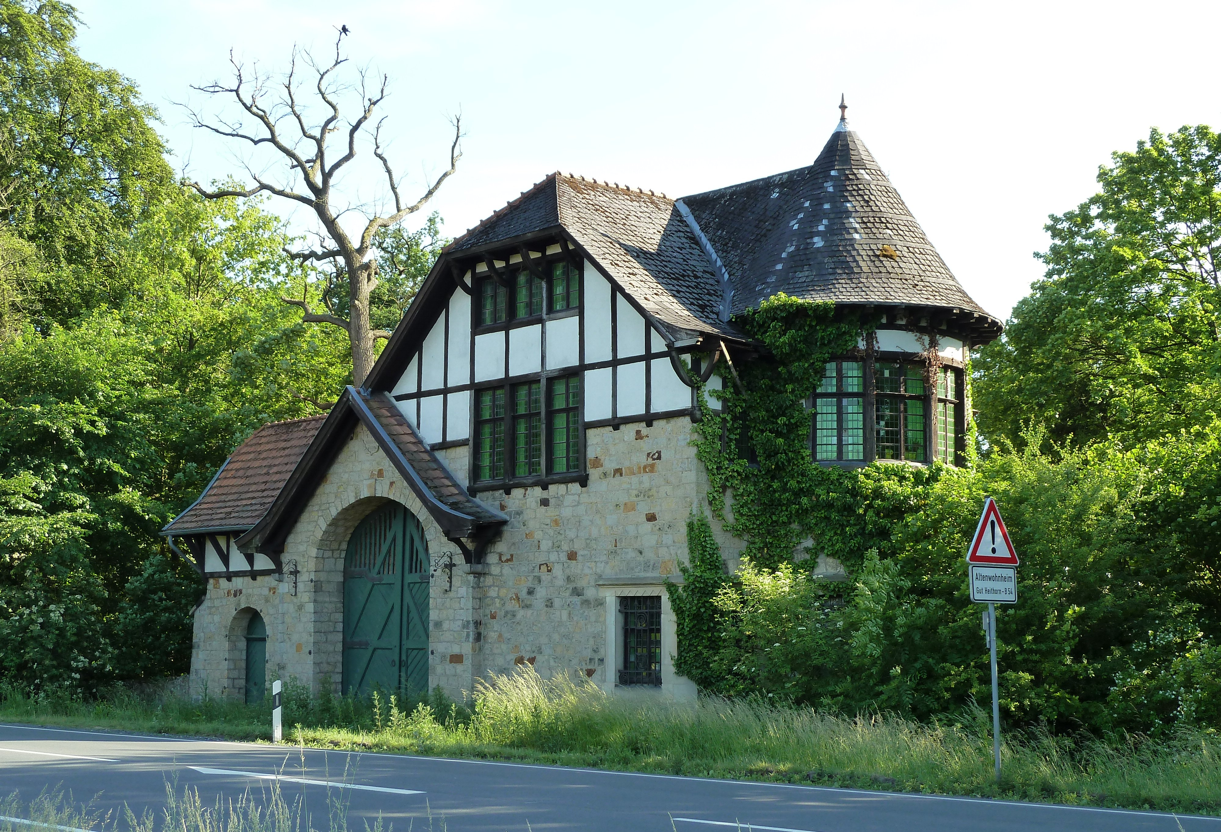 Haus Heidhorn (Münster Hiltrup, Westfalia) - gate house